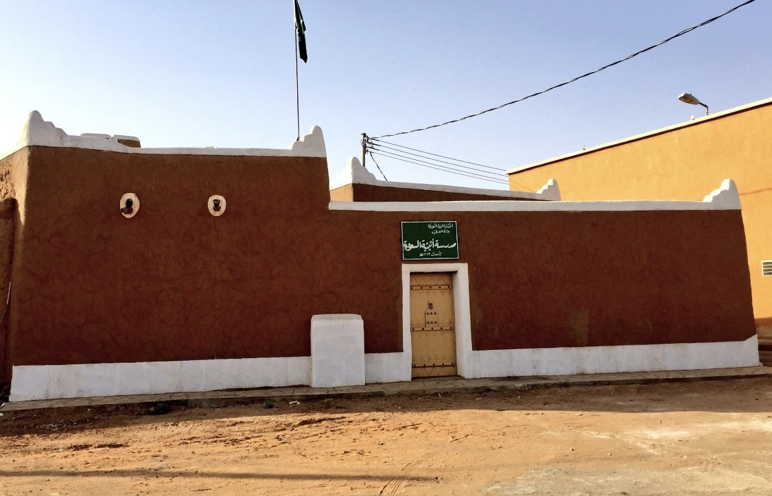 التعليم في اثيثية